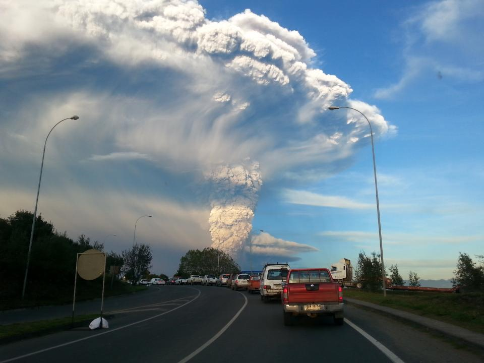 Eruption of Calbuco seen from the city Puerto Varas.